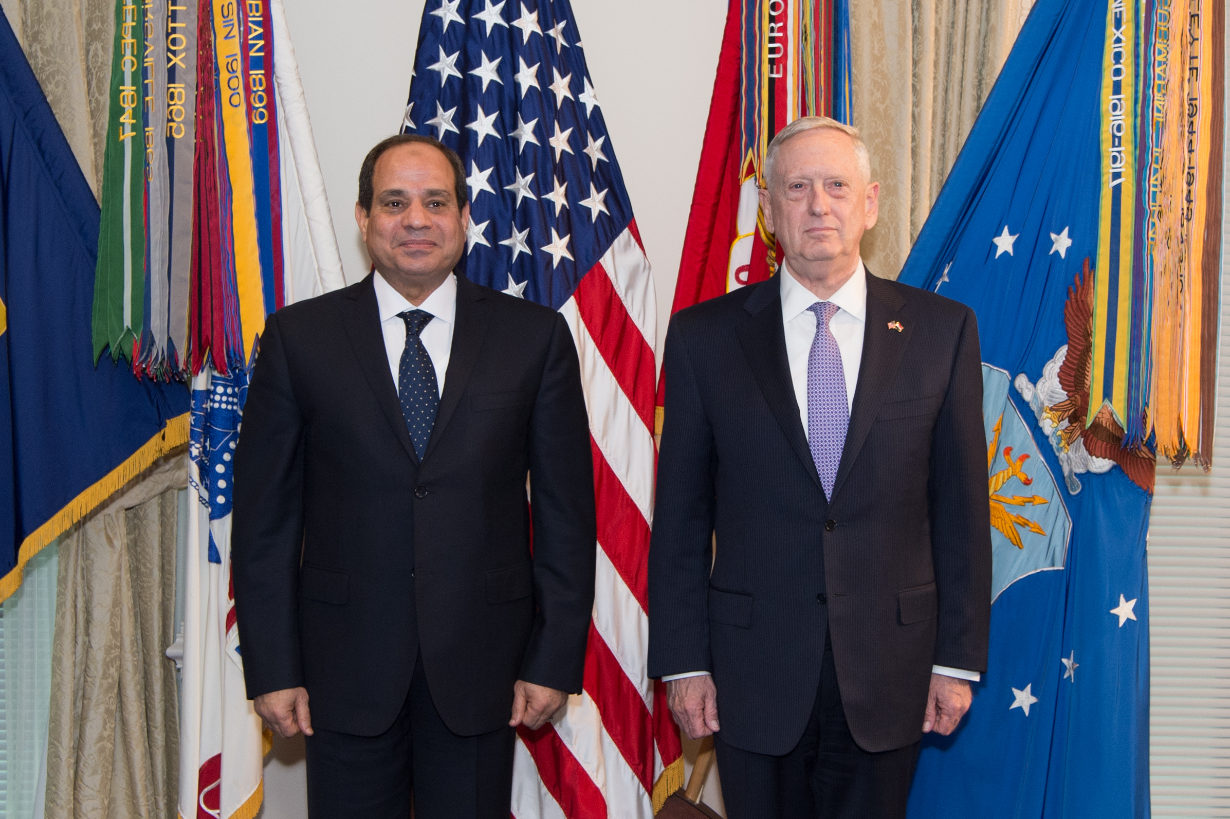 Defense Secretary Jim Mattis meets with Egypt’s President Abdul Fattah al-Sisi during a meeting held at the Pentagon in Washington, D.C., April 5, 2017. (DOD photo by U.S. Army Sgt. Amber I. Smith)